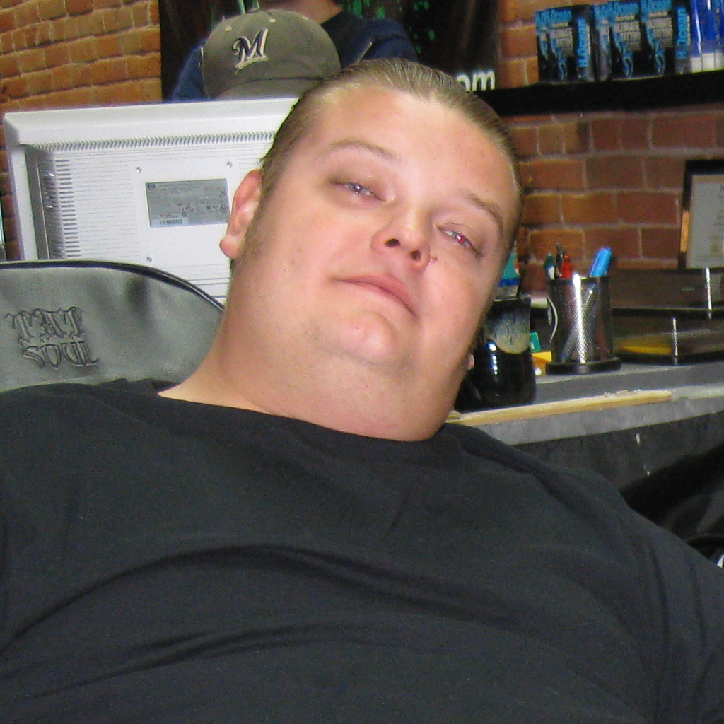 Corey from the TV series Pawn Stars.